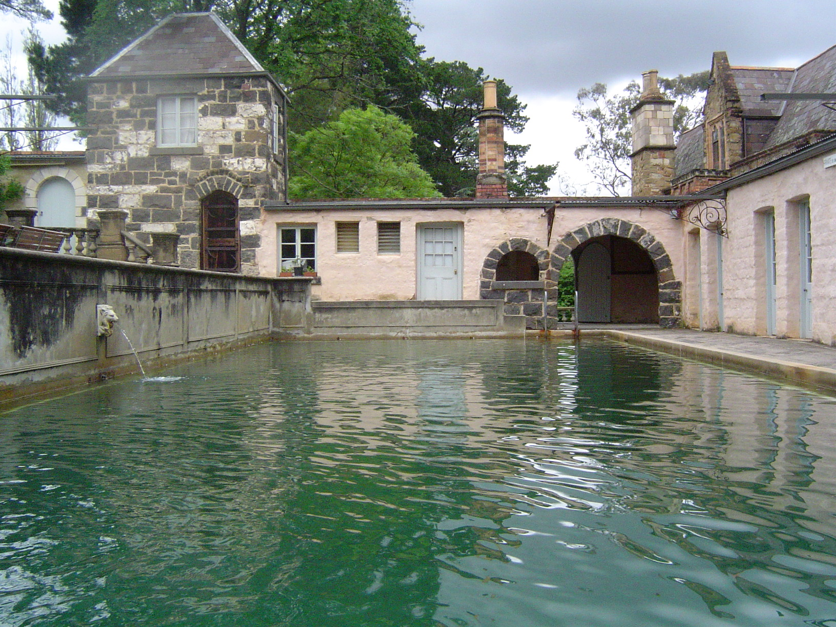 The Ornamental Pond in Montsalva in 2004.